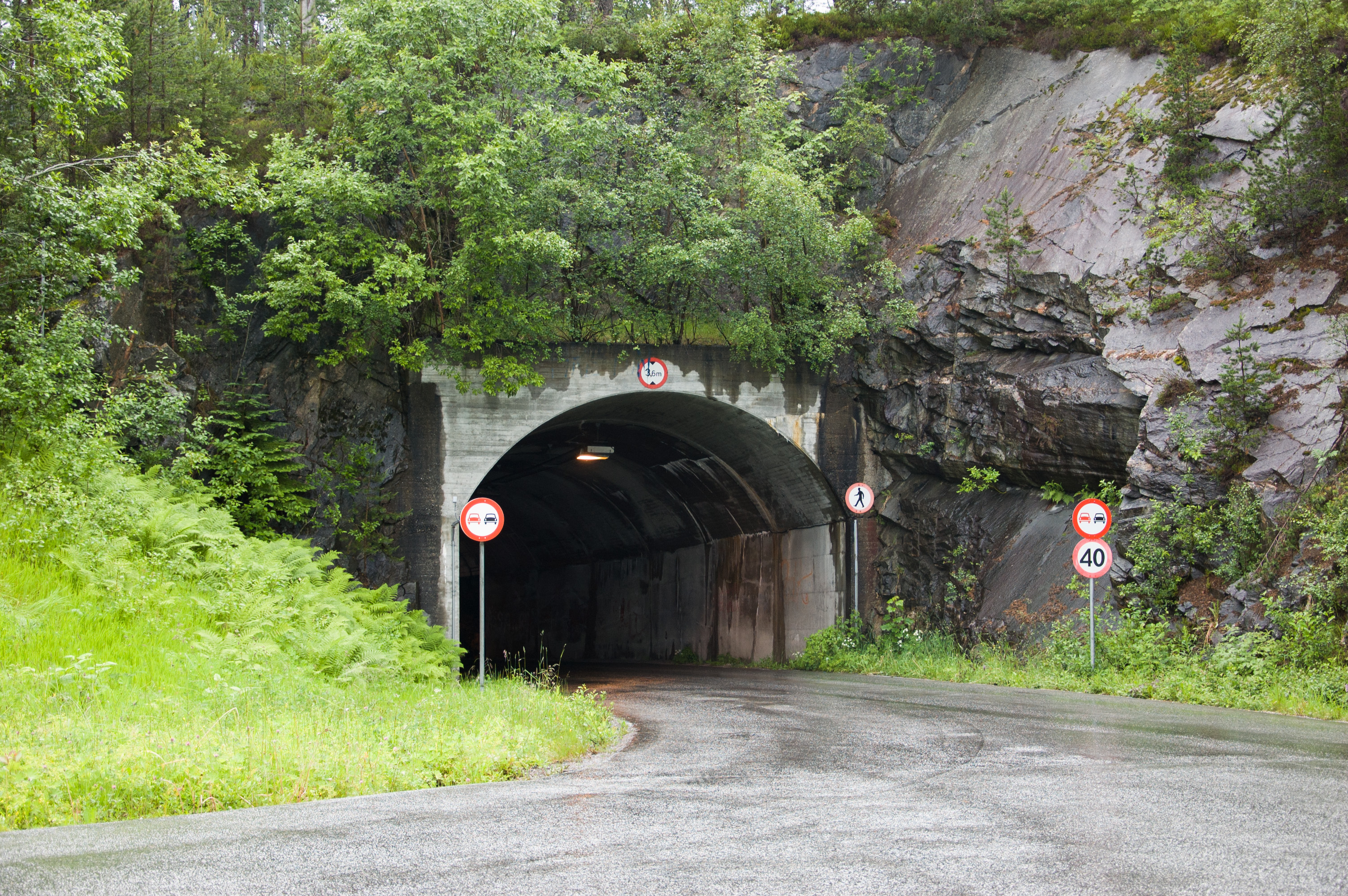 The Hatleli tunnel on Bekkevollvegen in Molde, Norway